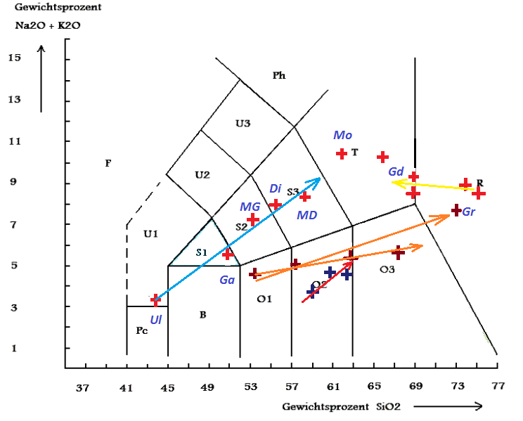 TAS diagram with the plotted compositions of the Karawanken granite suite (red crosses), the Karawanken tonalite suite (blue crosses) and the Rieserferner suite (Brown crosses).